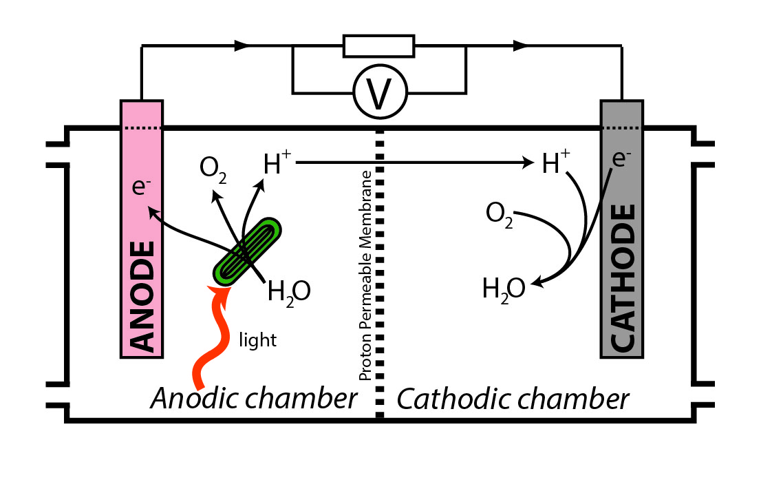 The diagram illustrates the principle of operation of a biological photovoltaic system. Electrons are generated by a photosynthetic organism and subsequently transferred to an external electrical circuit, and finally consumed in the reduction of oxygen at the cathode of the device.